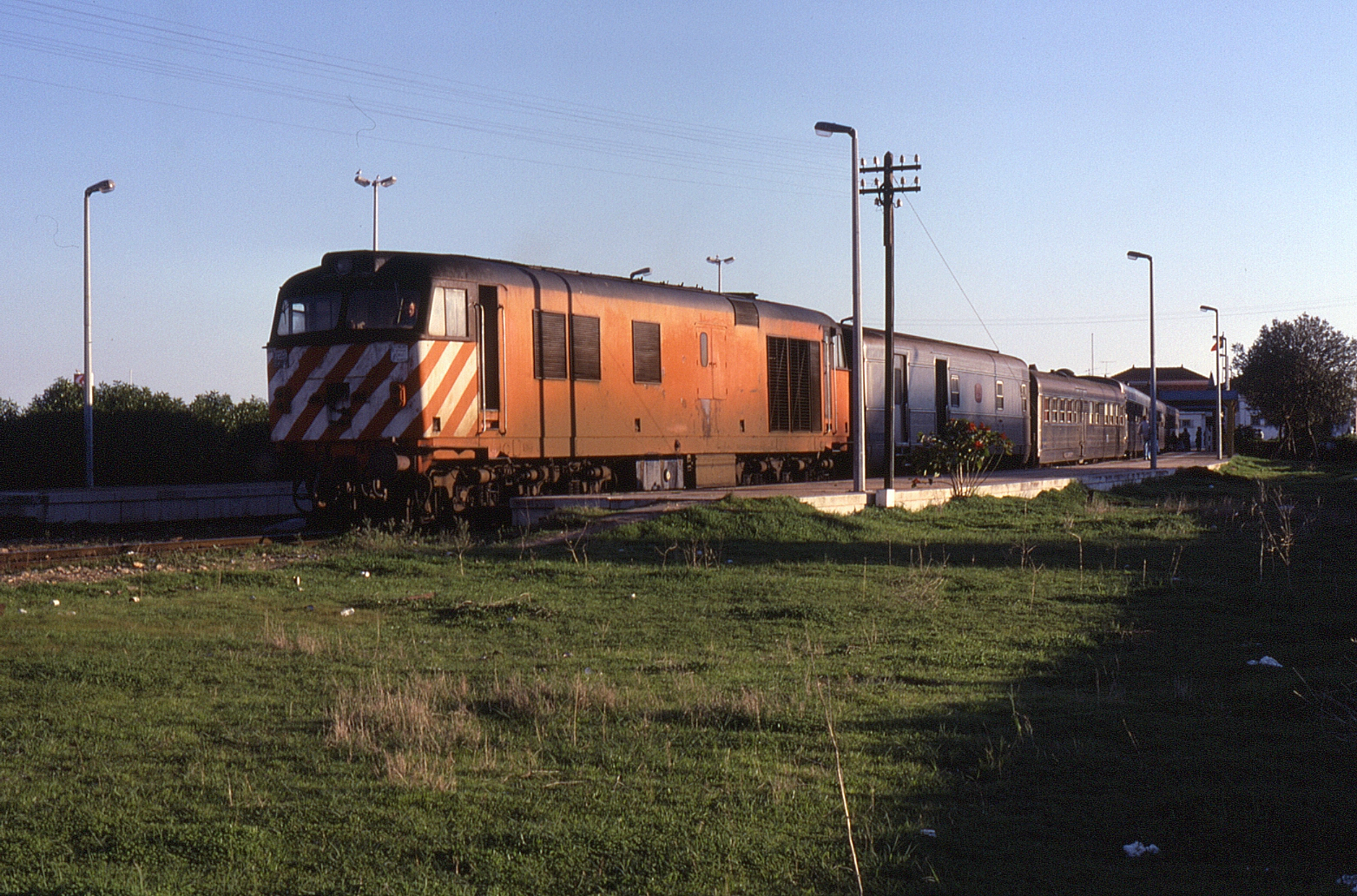 1805 Vila Real de Santo António Guadiana on 27 November 1990 on the 16:15 to Barreiro.